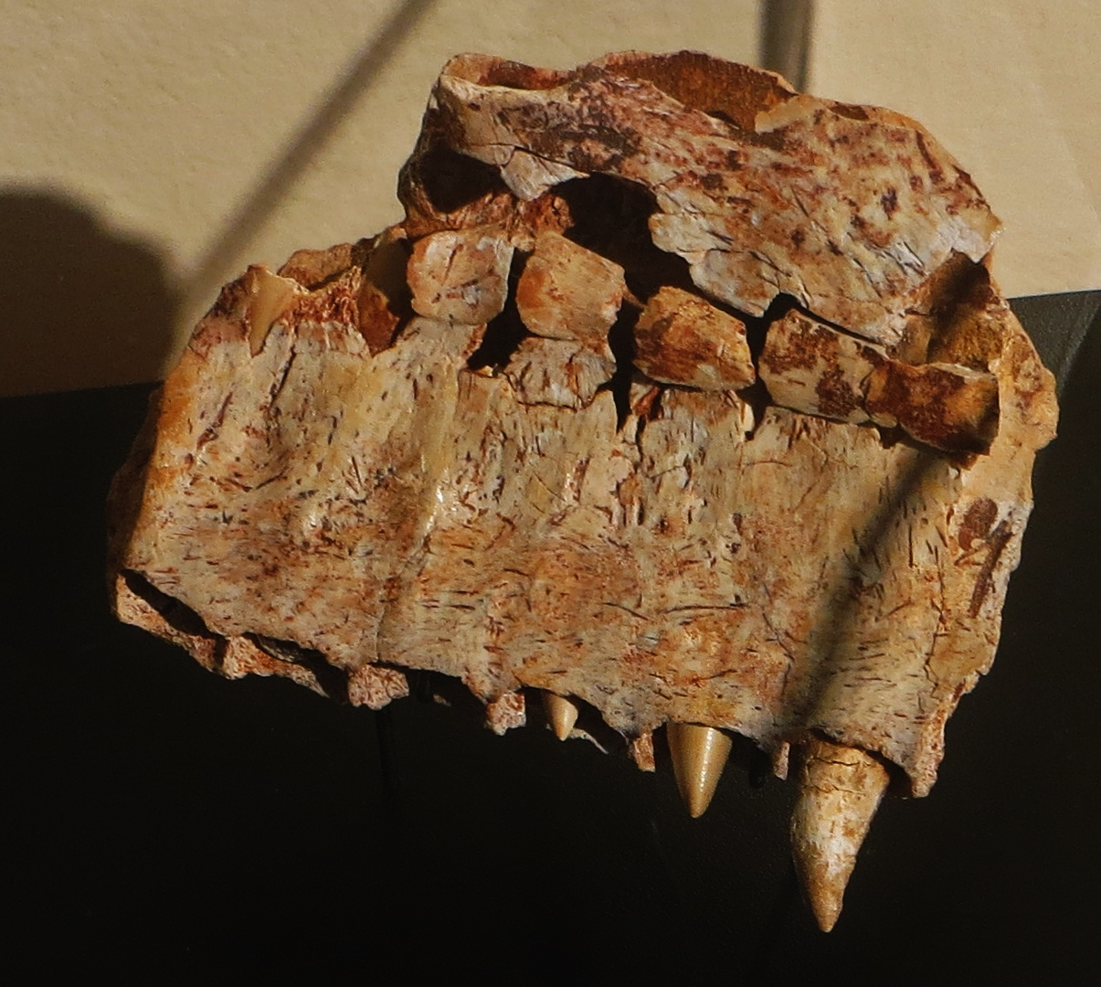 Specimen UCPC 10 of abelisaurid dinosaur